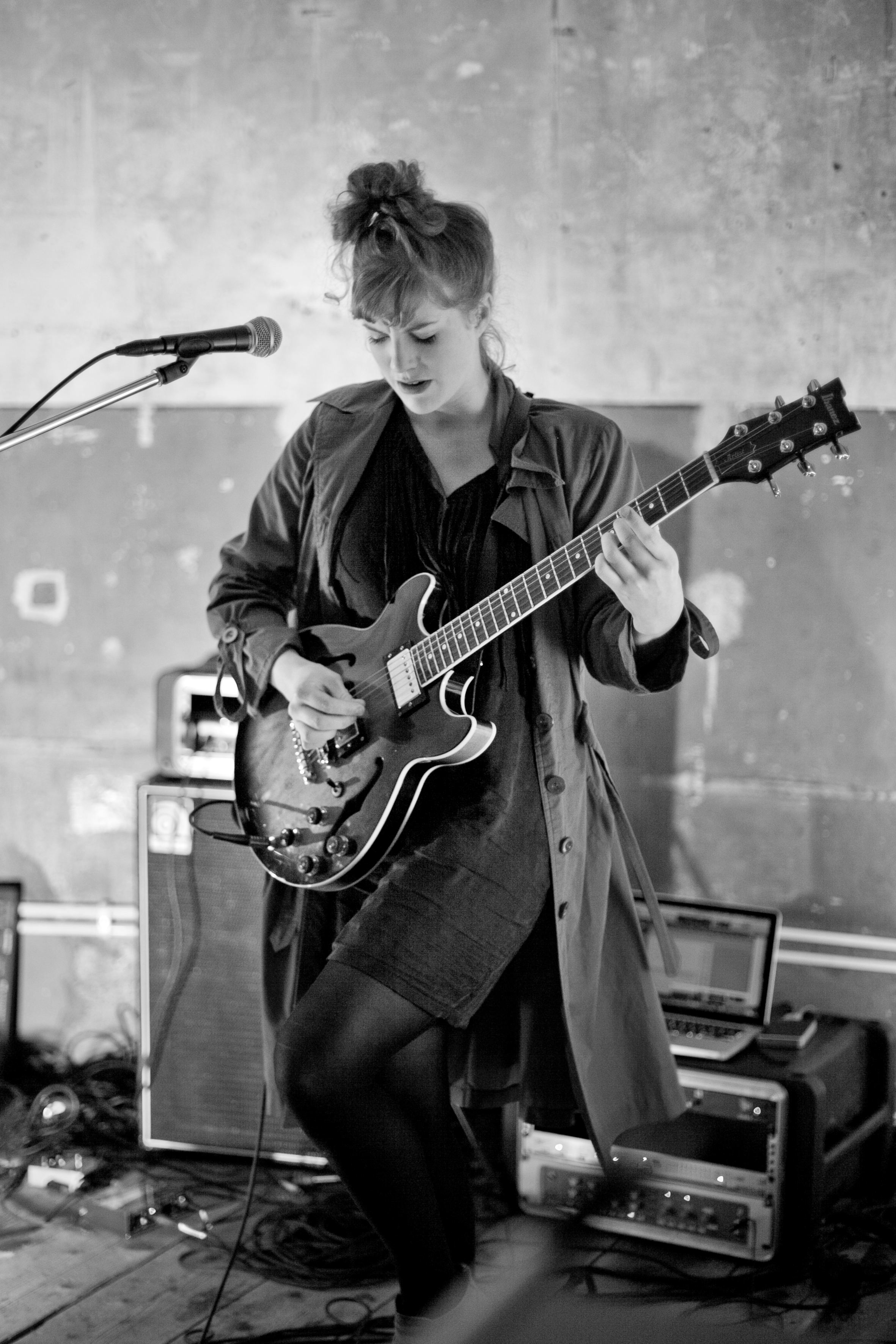 Foto by Michal Schorro 2012